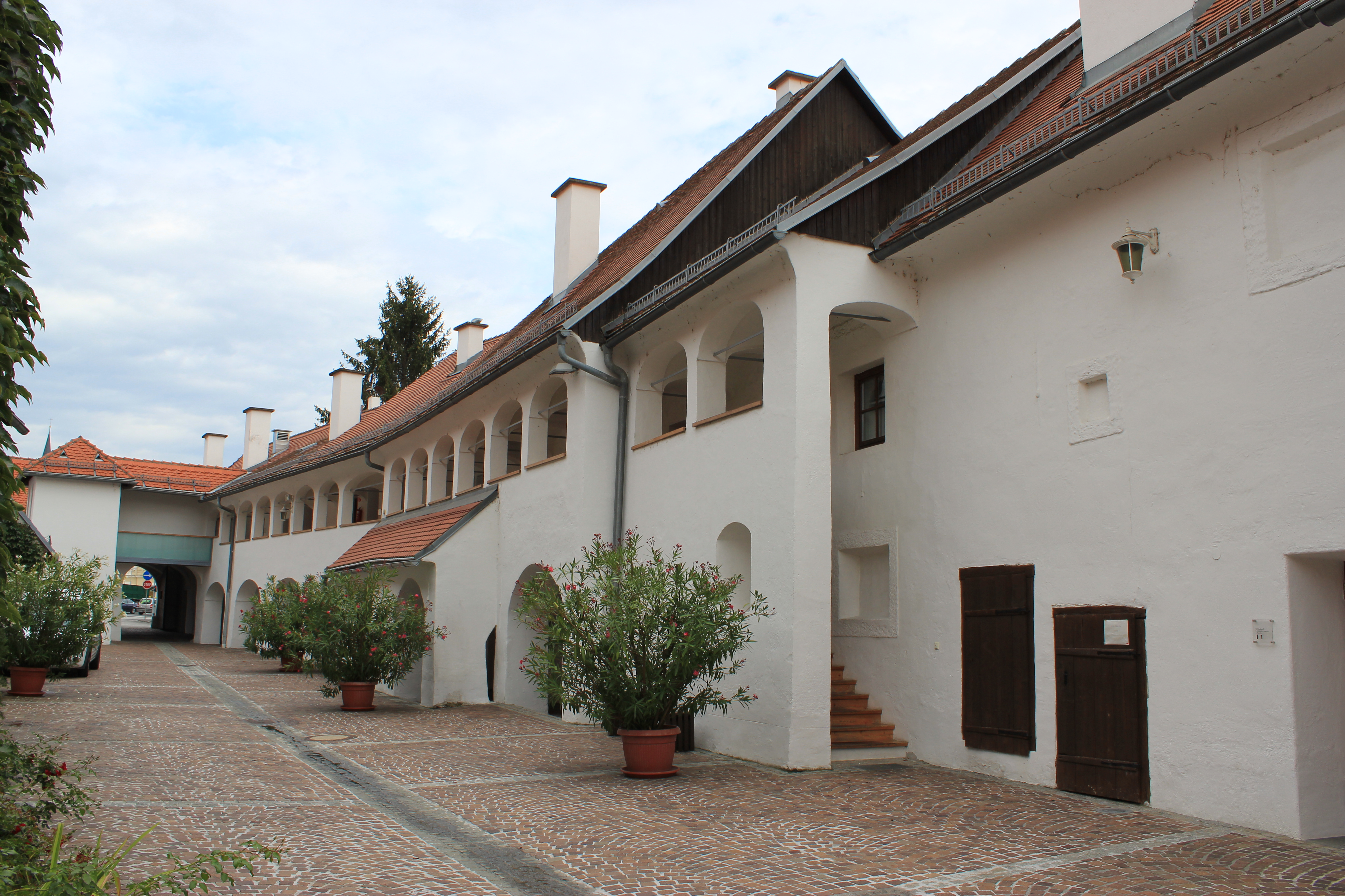 Former People-hospital in Sankt Veit an der Glan